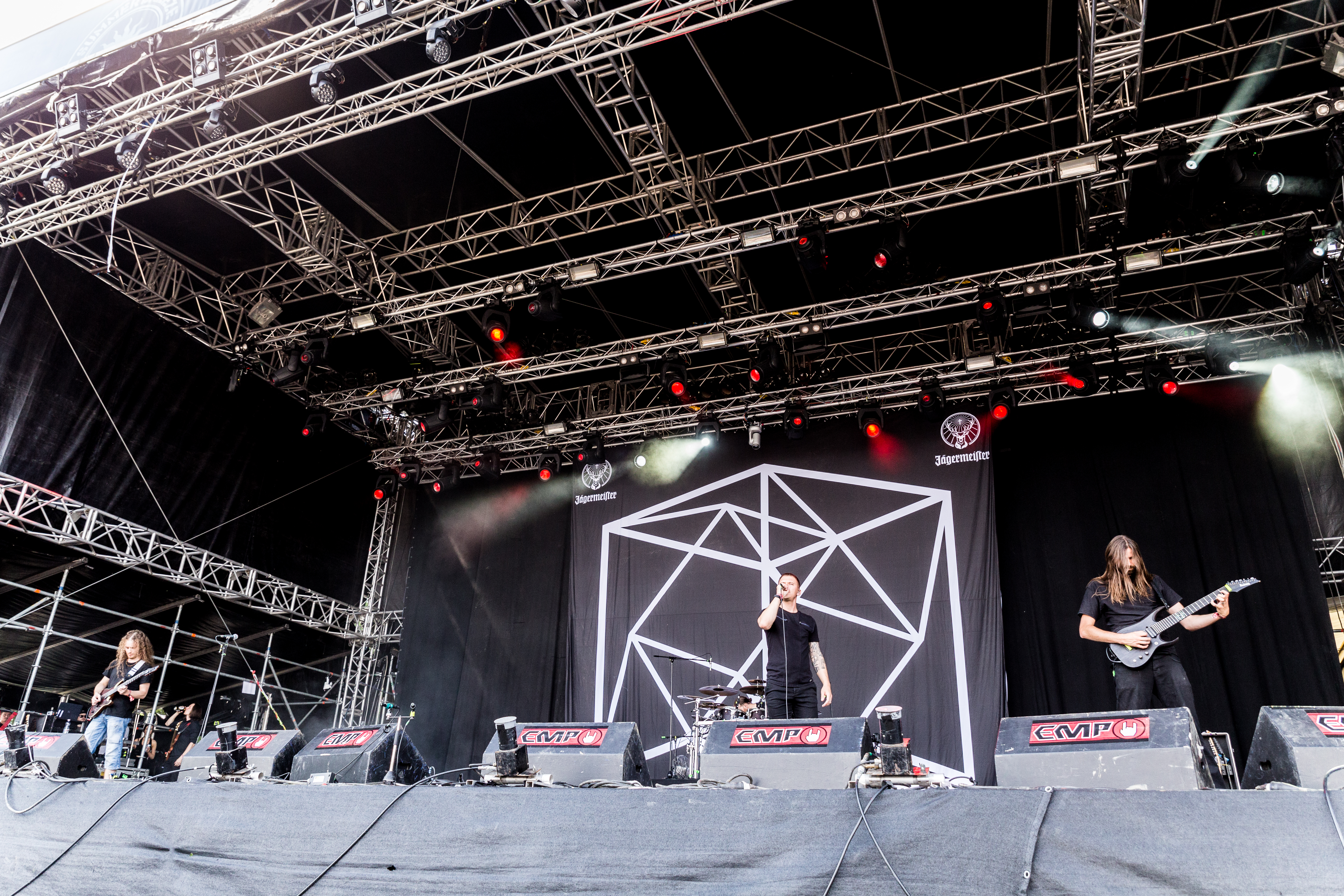 The British progressive metal band Tesseract at the Summer Breeze Open Air 2017 in Dinkelsbühl/Germany.